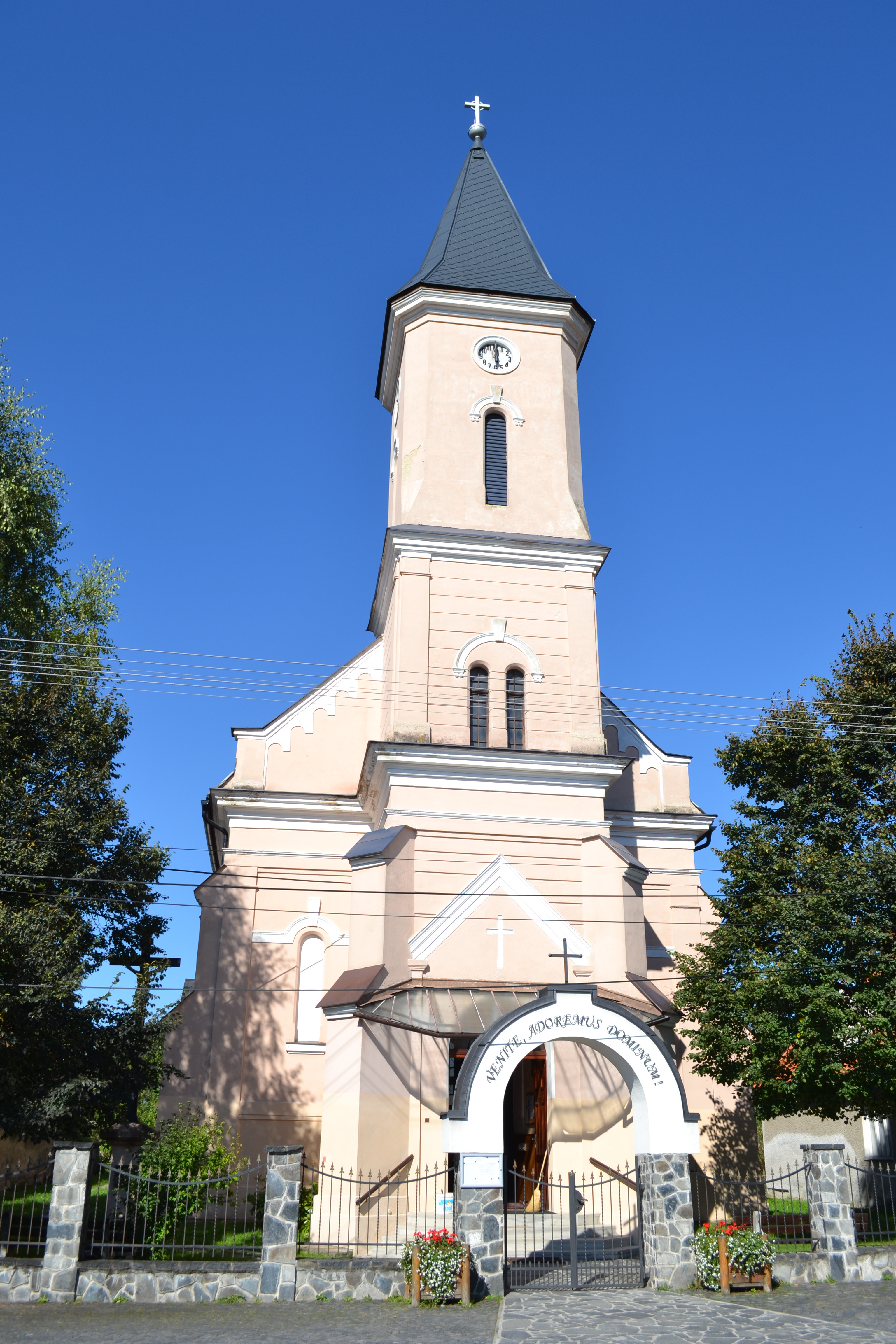 Church of Our Lady Queen (Magna Domina Hungarorum) in RadzovceSlovenčina: Kostol Panny Márie Kráľovnej (Magna Domina Hungarorum) v Radzovciach